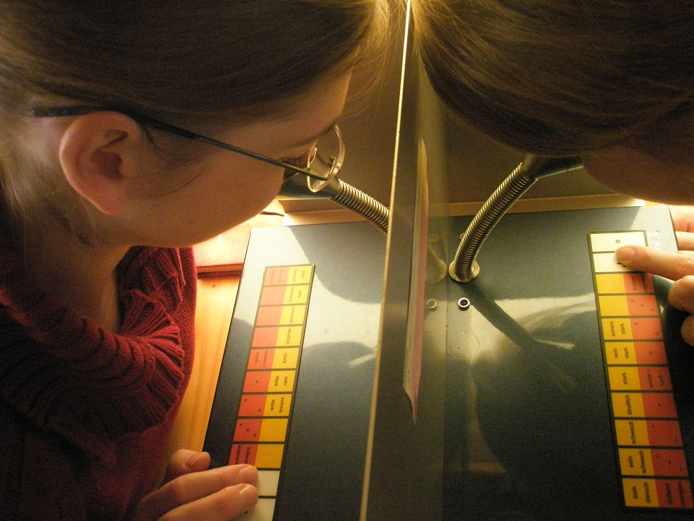 Positions of TO7 olfactometer